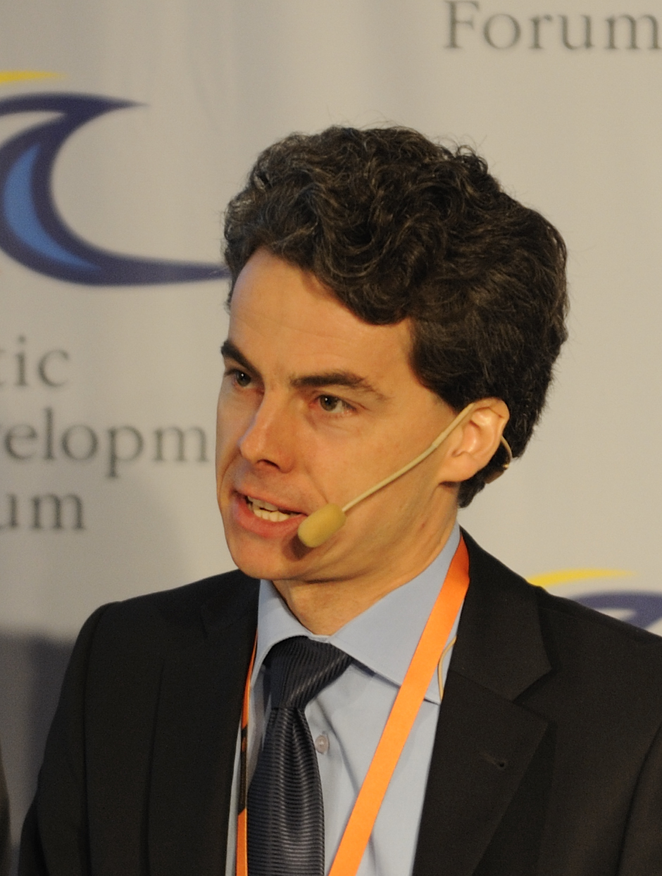 Ulla Hamilton, Vice Mayor of Stockholm, Christian Maaß, State Secretary, City of Hamburg, and Björn G Karlsson, Professor, University of Linköping. Photo by Kai Thomas Engström.